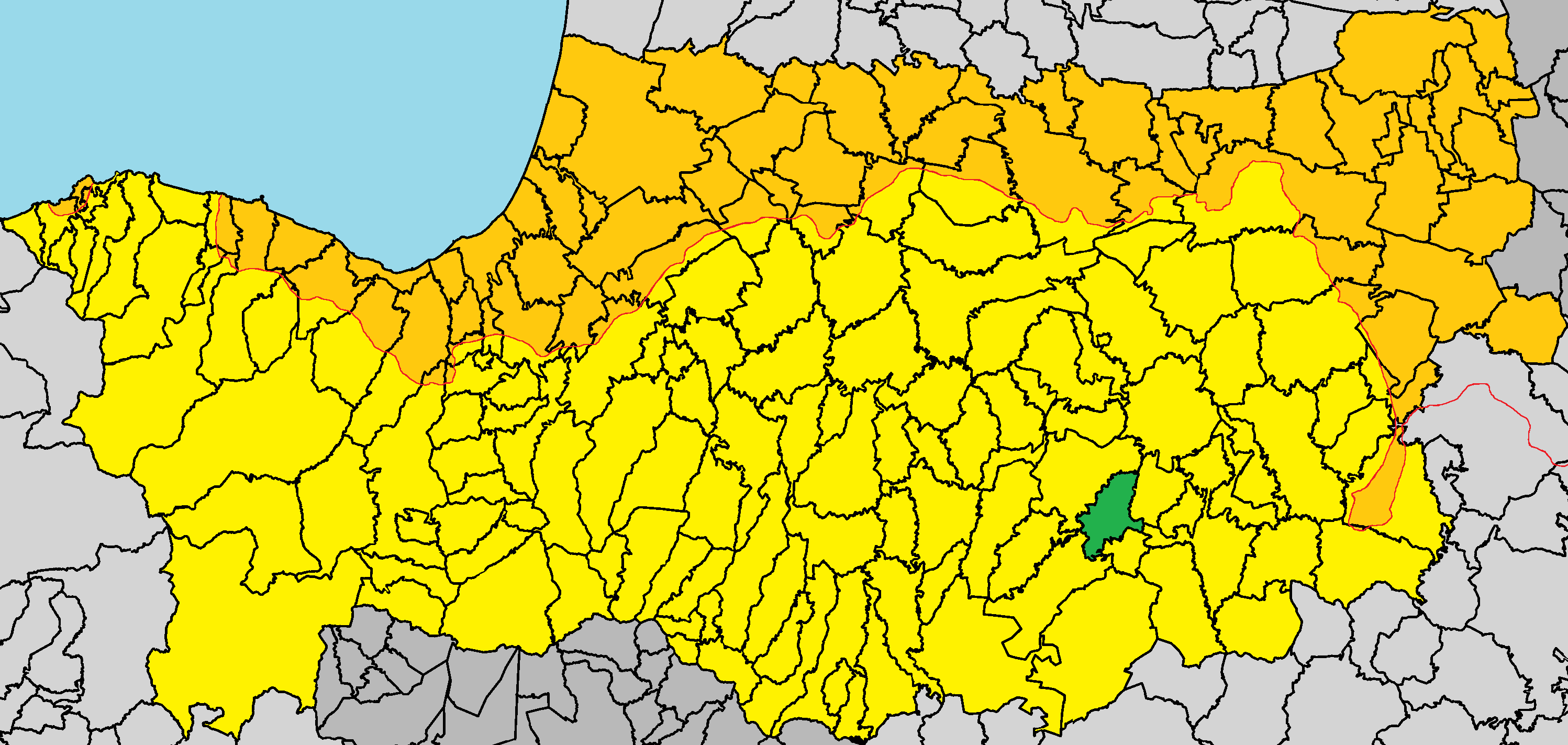 Analiontas in Nicosia District.